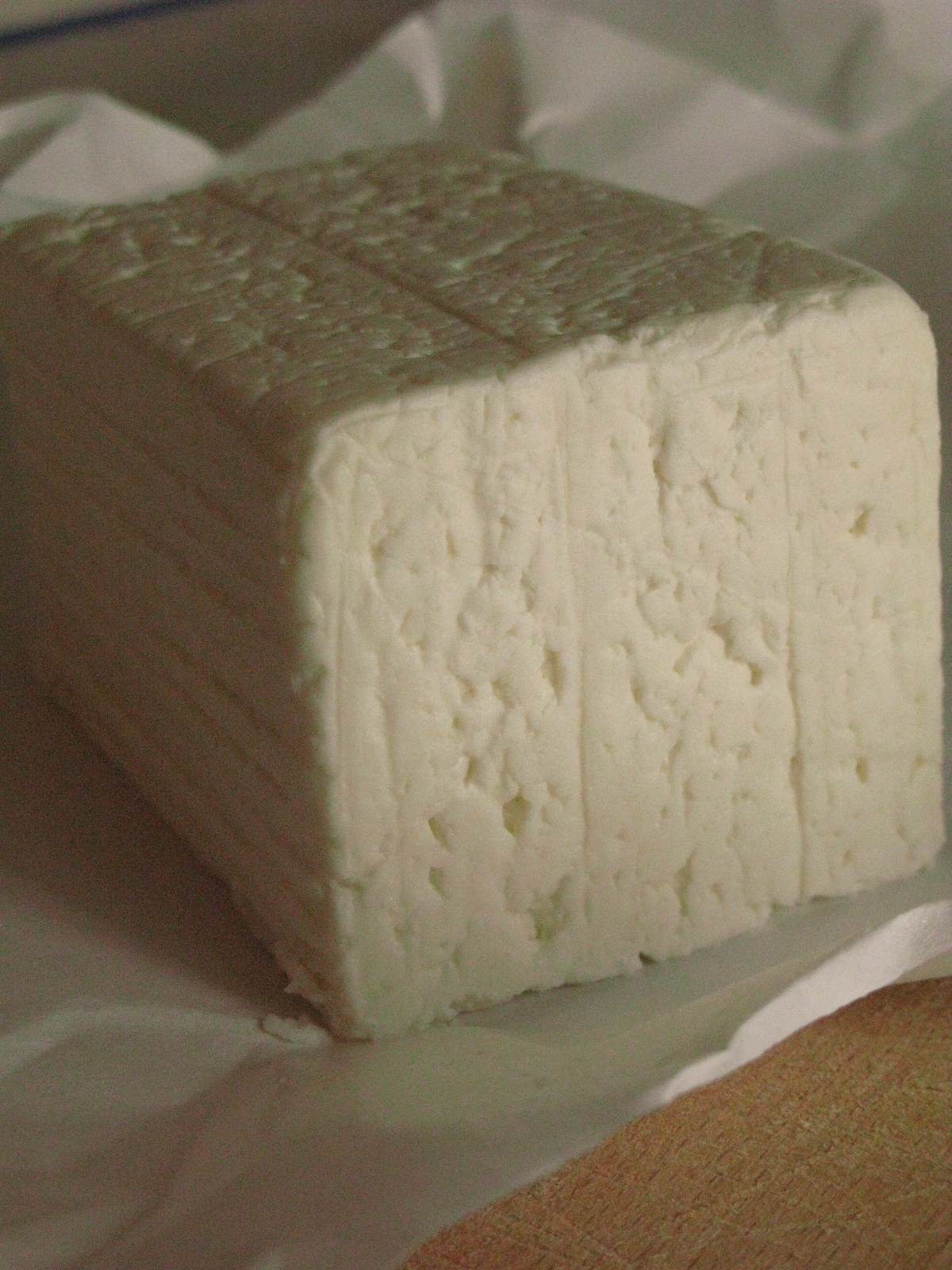 a piece of Quartirolo Lombardo cheese